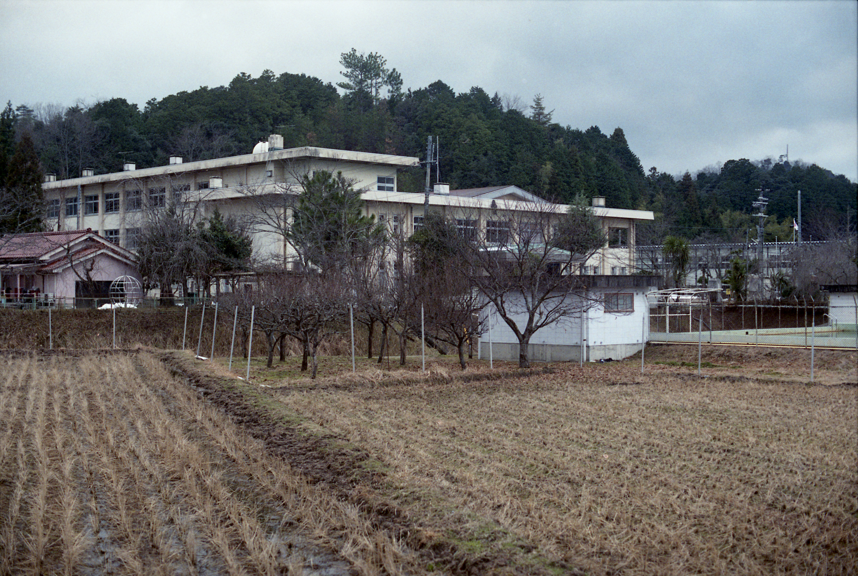 Kyotango City Sano Elementary School. Kumihama-cho An-yoji, Kyotango city, Kyoto Prefecture, 629-3566, Japan.